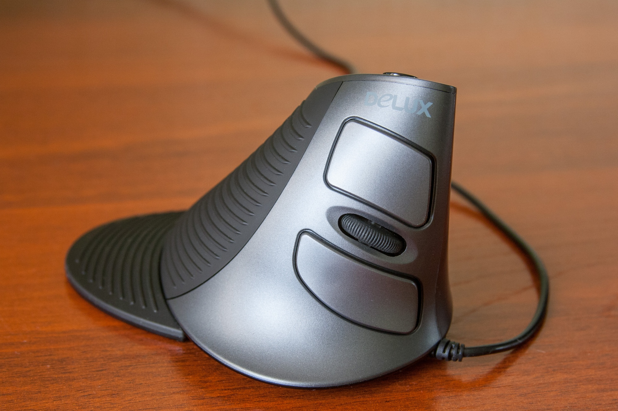 Delux M618 vertical mouse